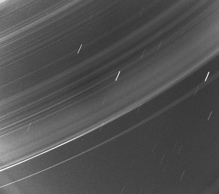 This dramatic Voyager 2 picture reveals a continuous distribution of small particles throughout the Uranus ring system. Voyager took this image while in the shadow of Uranus, at a distance of 236,000 kilometers (142,000 miles and a resolution of about 33 km (20 ml). This unique geometry -- the highest phase angle at which Voyager imaged the rings -- allows us to see lanes of fine dust particles not visible from other viewing angles. All the previously known rings are visible here, however, some of the brightest features in the image are bright dust lanes not previously seen. The combination of this unique geometry and a long, 96 second exposure allowed this spectacular observation, acquired through the clear filter of Voyager's wide-angle camera. The long exposure produced a noticeable, non-uniform smear as well as streaks due to trailed stars. The original NASA image has been modified by removal of reseaux marks and other artifacts, and by conversion from GIF to PNG format.